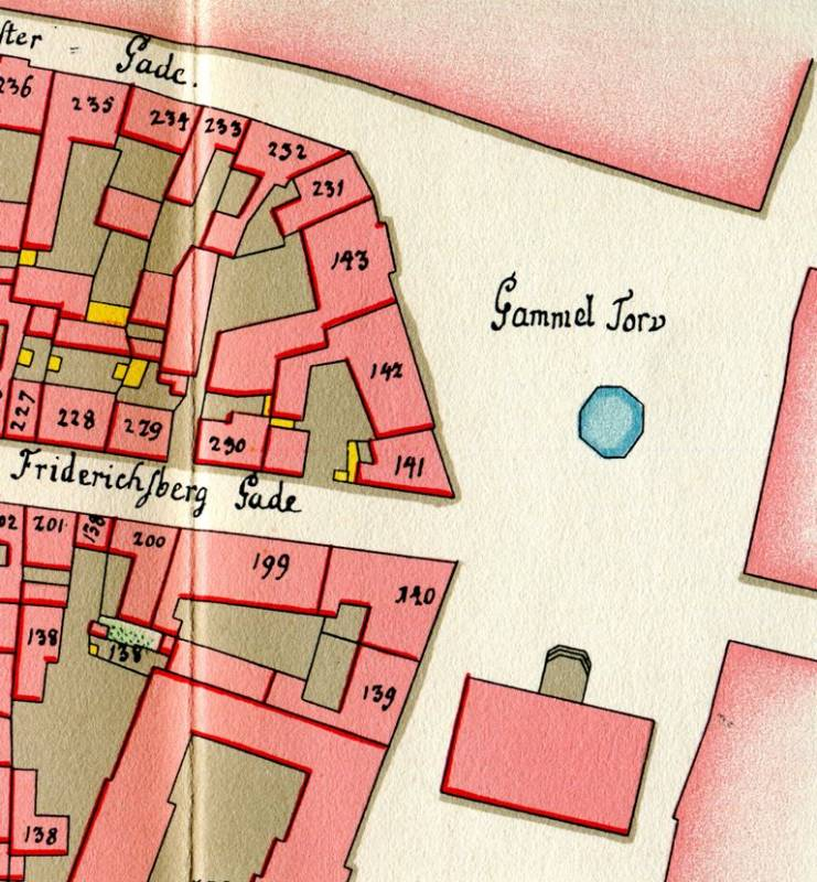 Detail of Gammeltorv from Christian Gedde's map of Vestre Kvarter in Copenhagen, Denmark